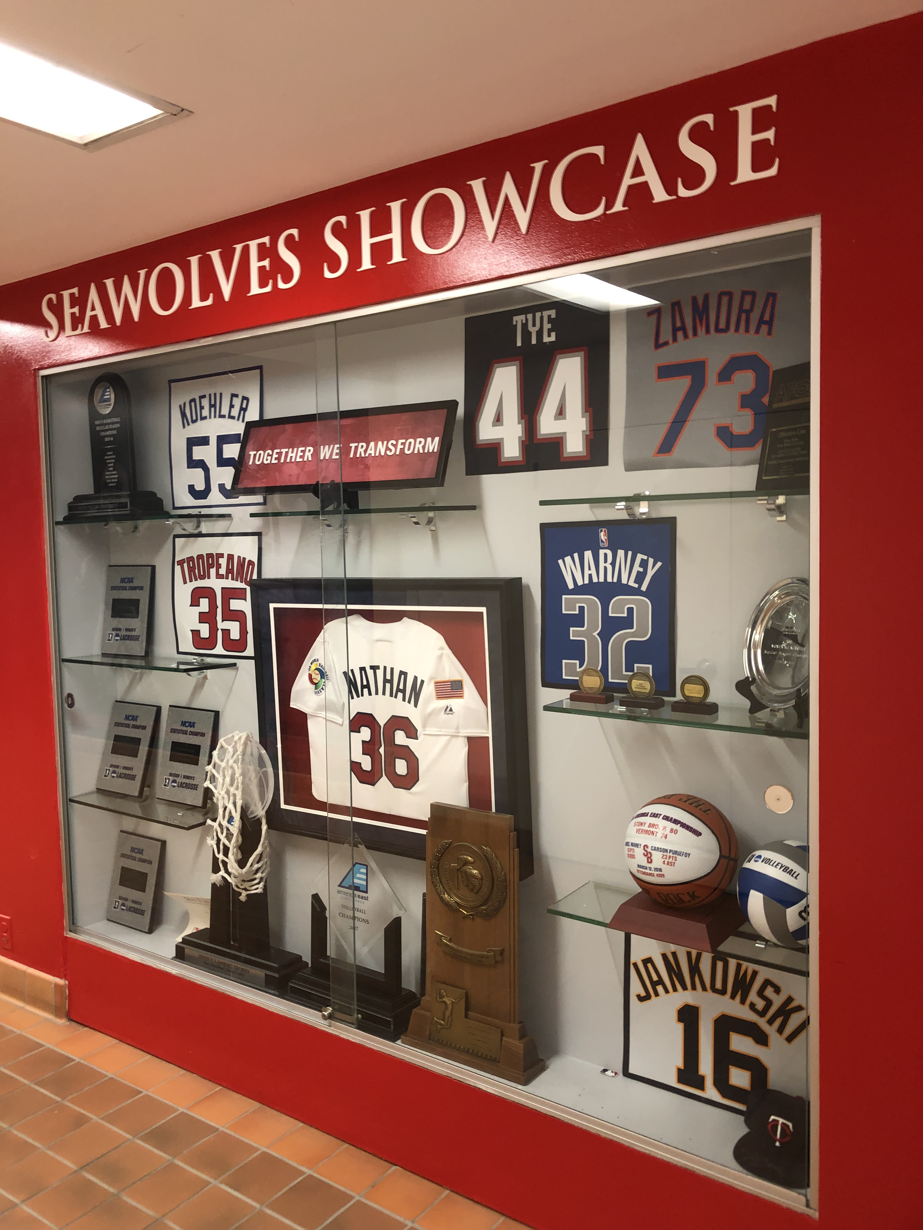 Stony Brook’s showcase of athletic alumni and championships.